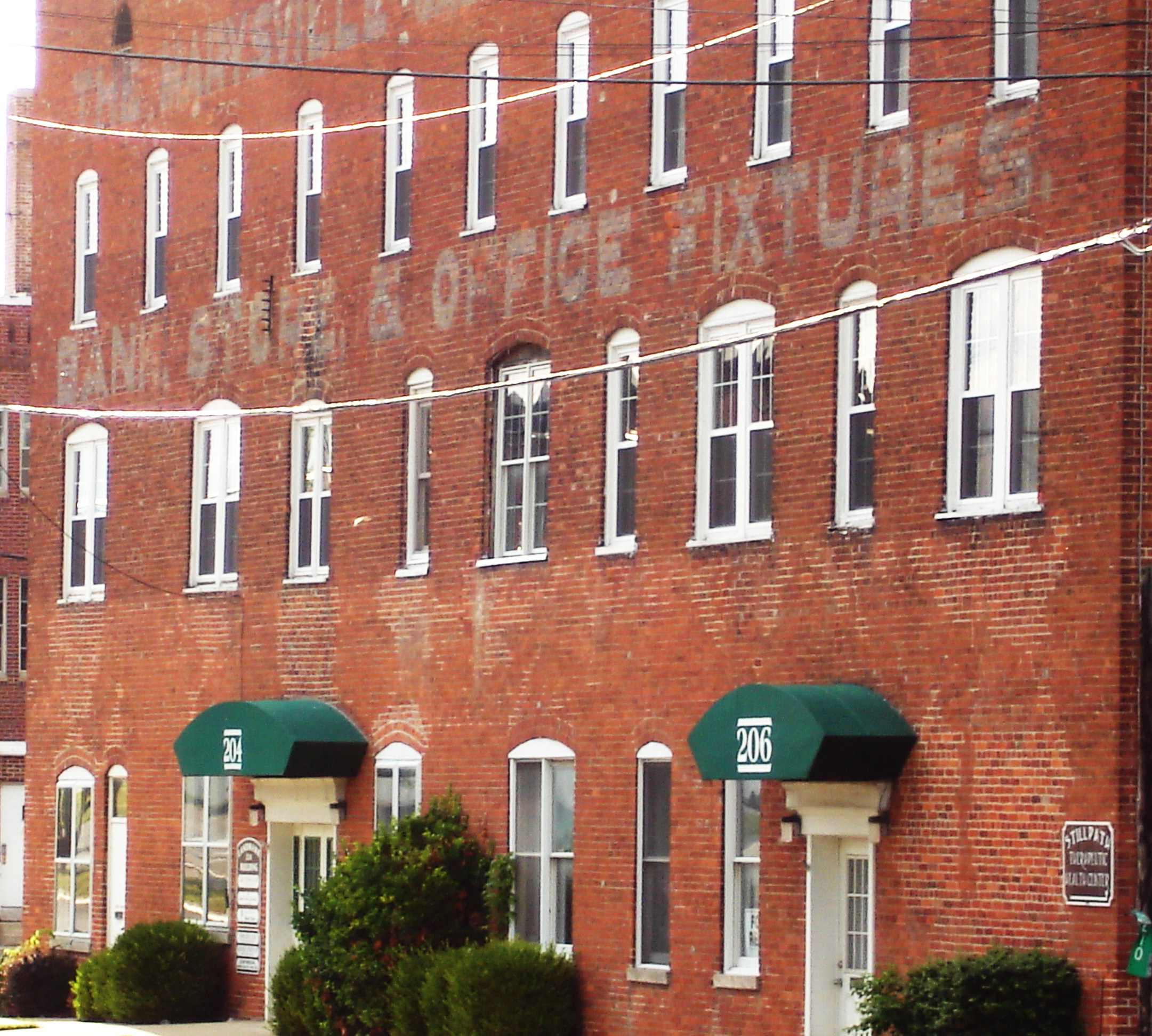 Landmark Building, Marysville, Ohio, United States